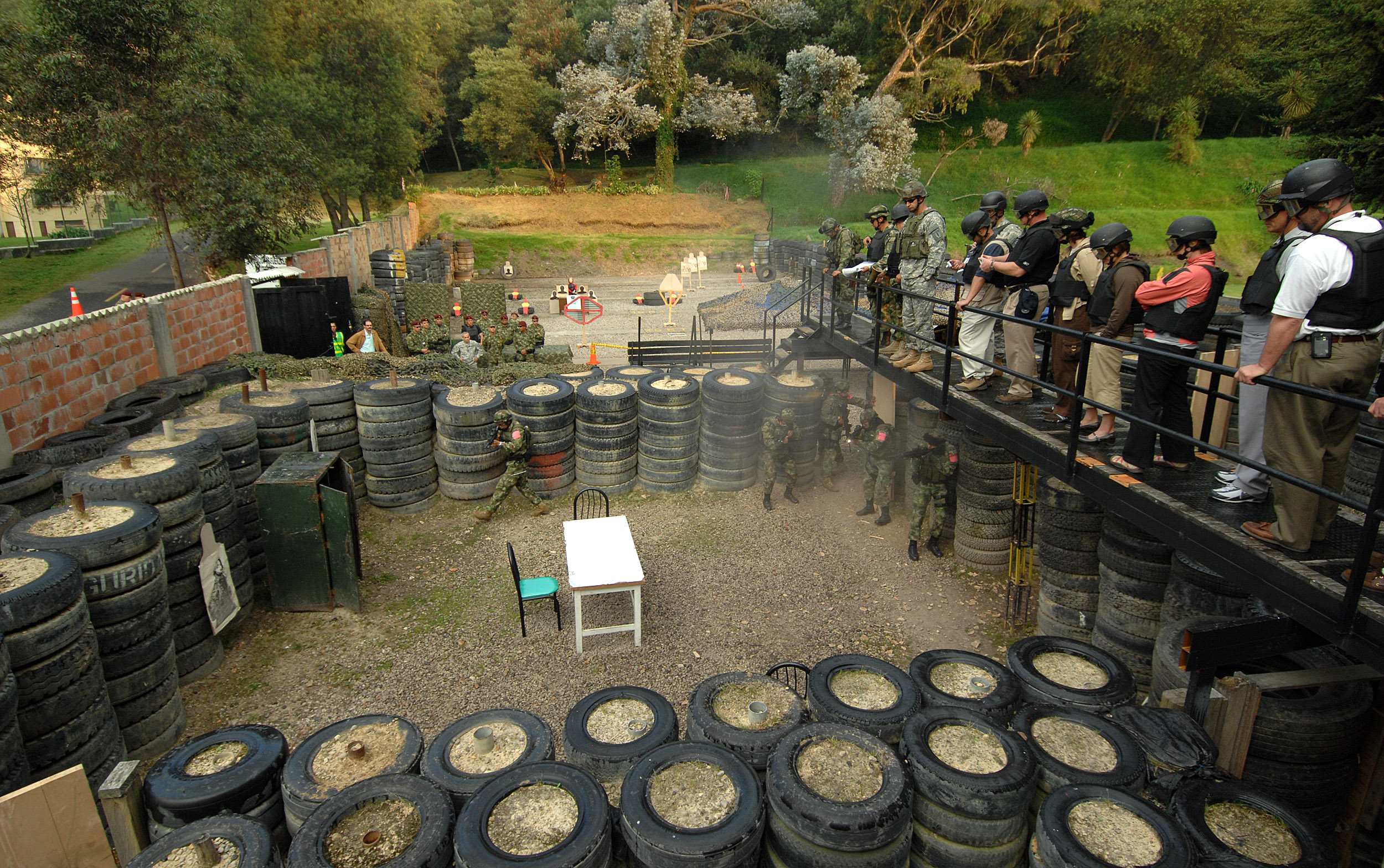 Colombian special forces members show tactics to participants of the 75th Joint Civilian Orientation Conference outside Bogota, Colombia, April 22, 2008.